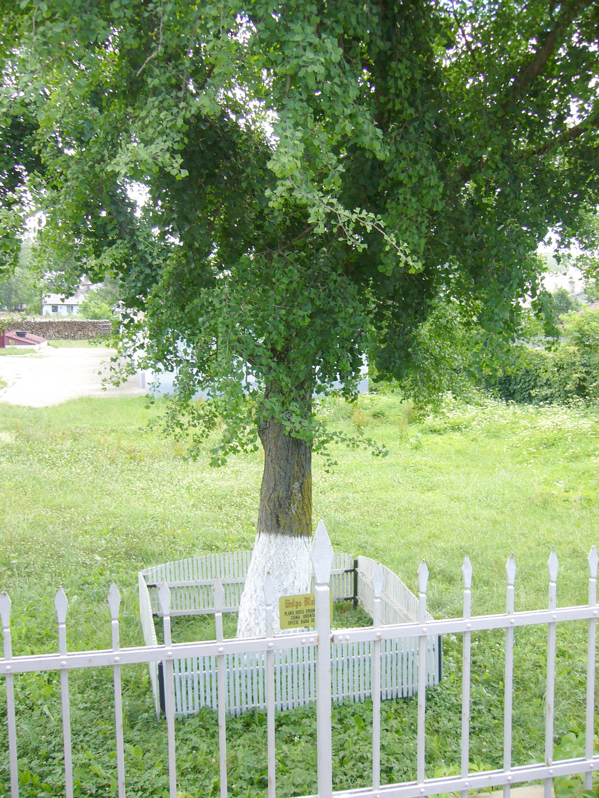 Ginkgo biloba from Siret, Romania